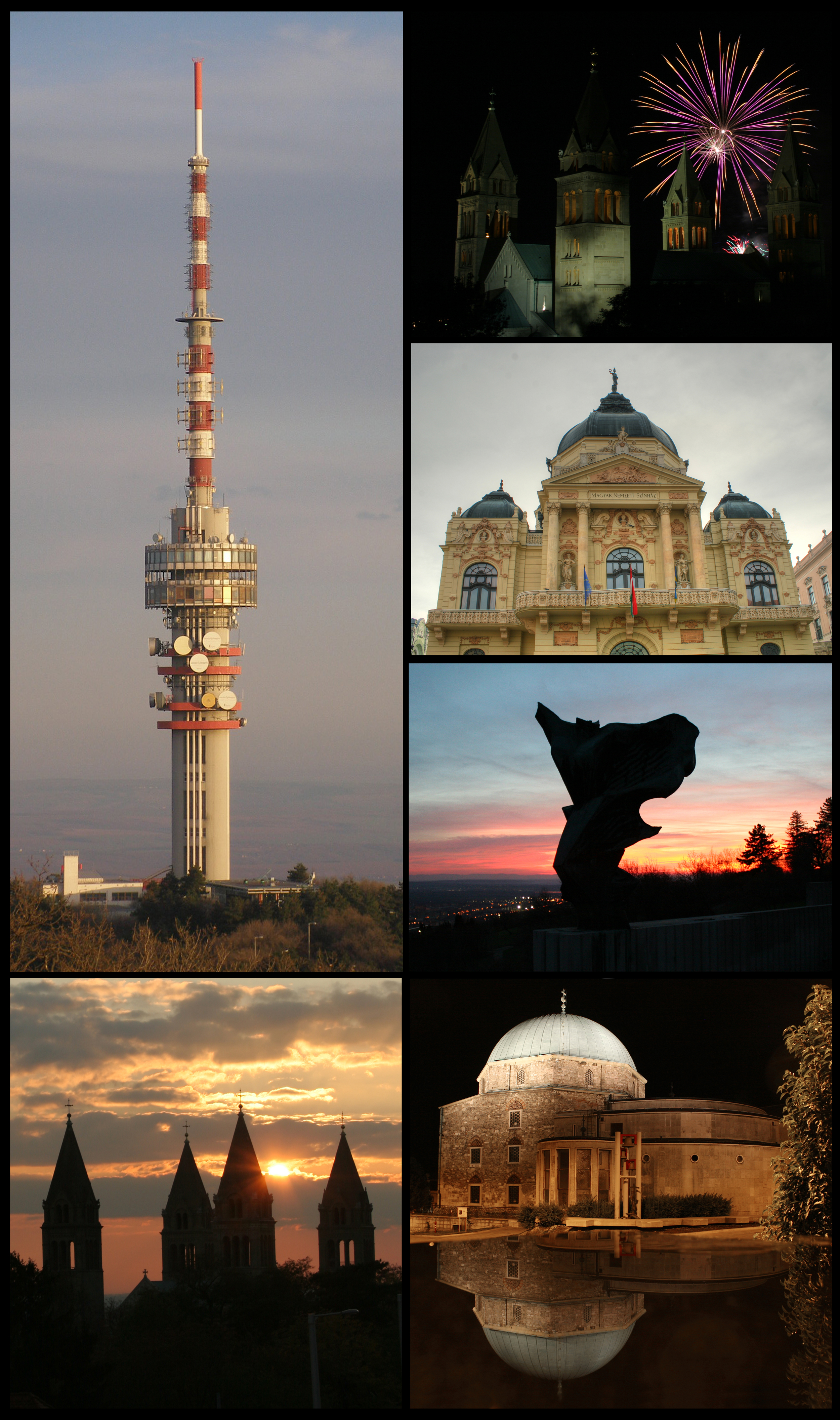 Pécs montage - including the TV Tower, the Mosque of Pasha Gazi Qasim, the Cathedral, the National Theatre and the Nike statue